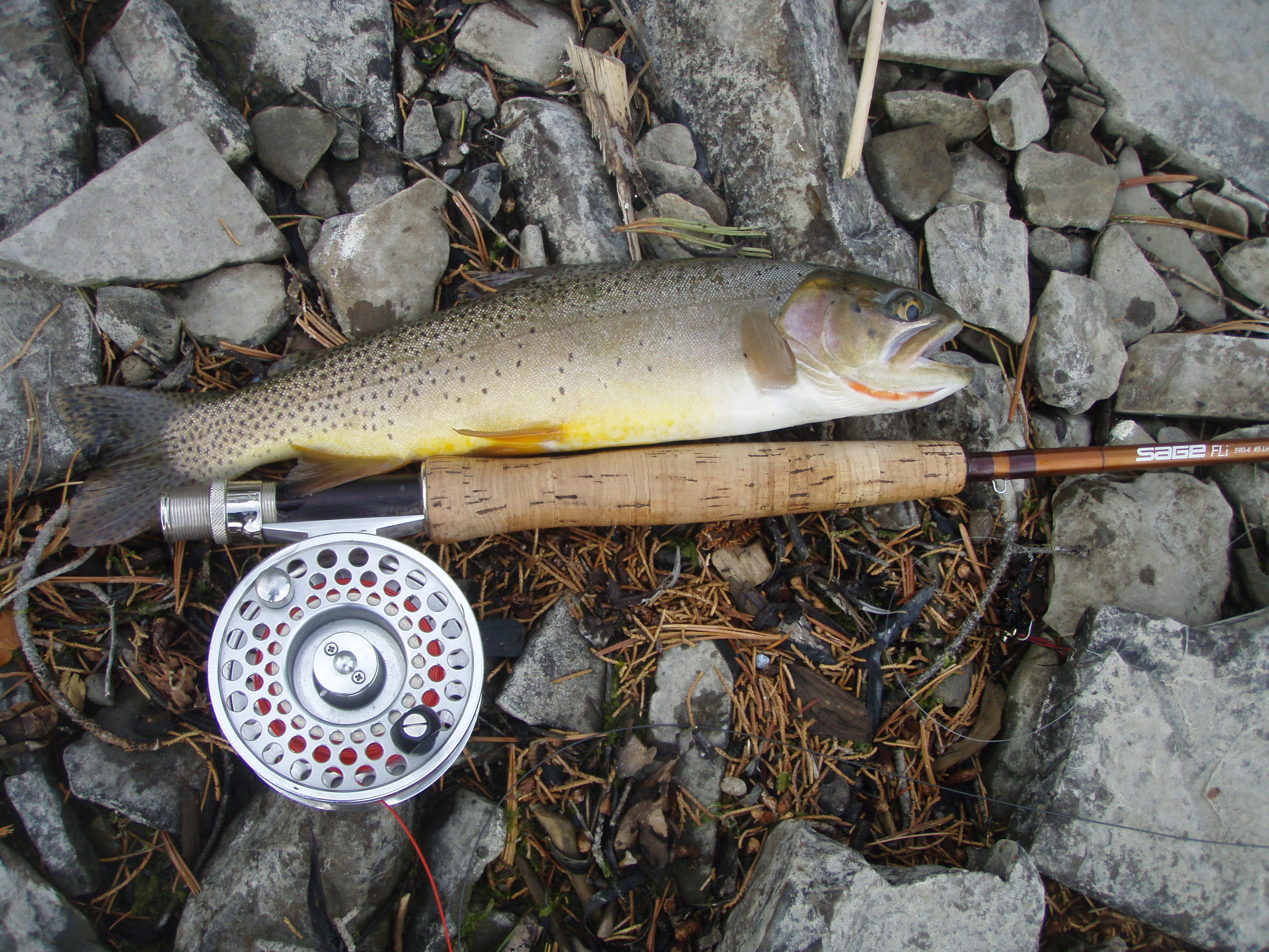 Yellowstone Cutthroat Trout from Black Canyon of the Yellowstone, August 2010